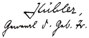 Signatur of General Ludwig Kübler (1889-1947)